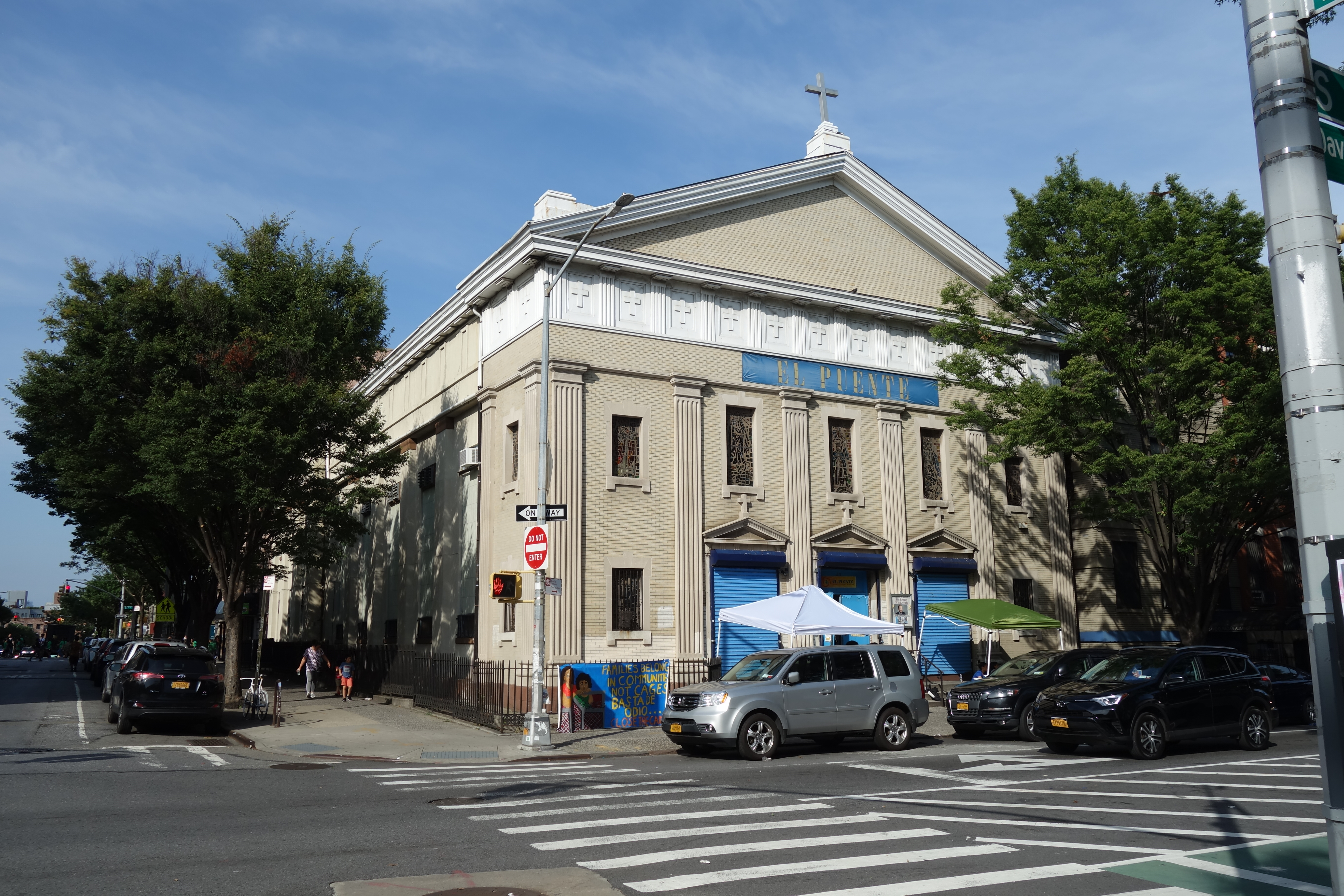 The headquarters of the El Puente coalition (211 South 4th Street), at the northeast corner of Roebling Street and South 4th Street in Williamsburg, Brooklyn.